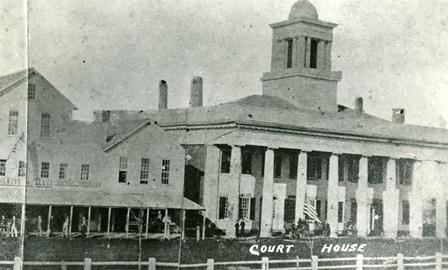 The 1826 Geauga County Courthouse was the third courthouse to be built on the town square in Chardon, Ohio. It burned to the ground in July of 1868 along with most of main street. }